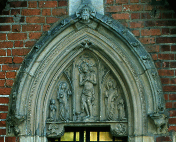 Castle Chapel in Lubin